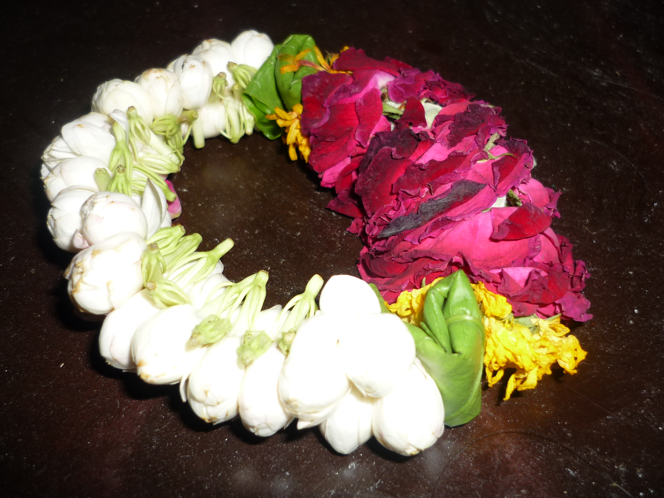 a bangal type jewelery hand made with flowers in Pakistan.